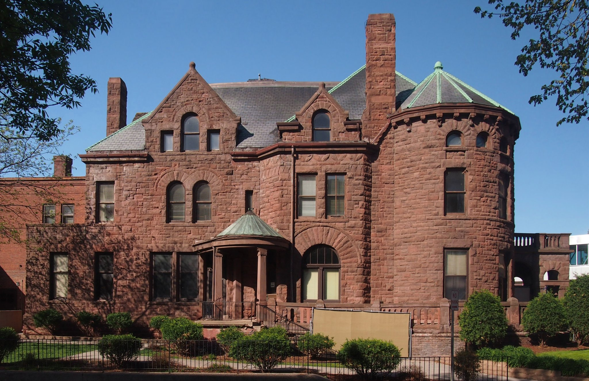 H. Alden Smith House (now the Wells Family College Center at Minnesota Community and Technical College), 1403 Harmon Pl, Minneapolis, Minnesota, USA. Viewed from the northeast.